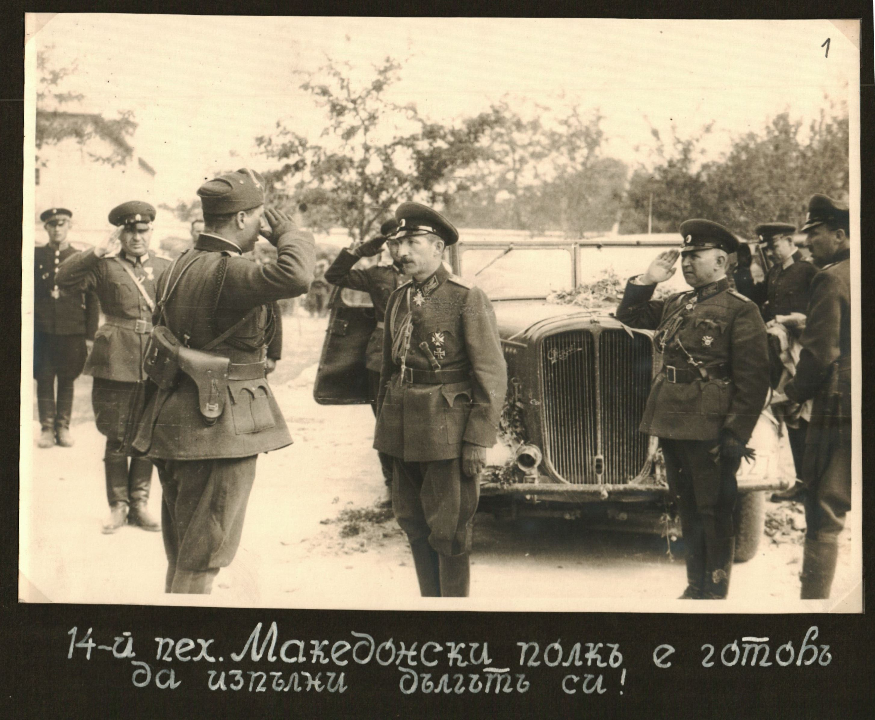 14 Infantry Macedonian Regiment